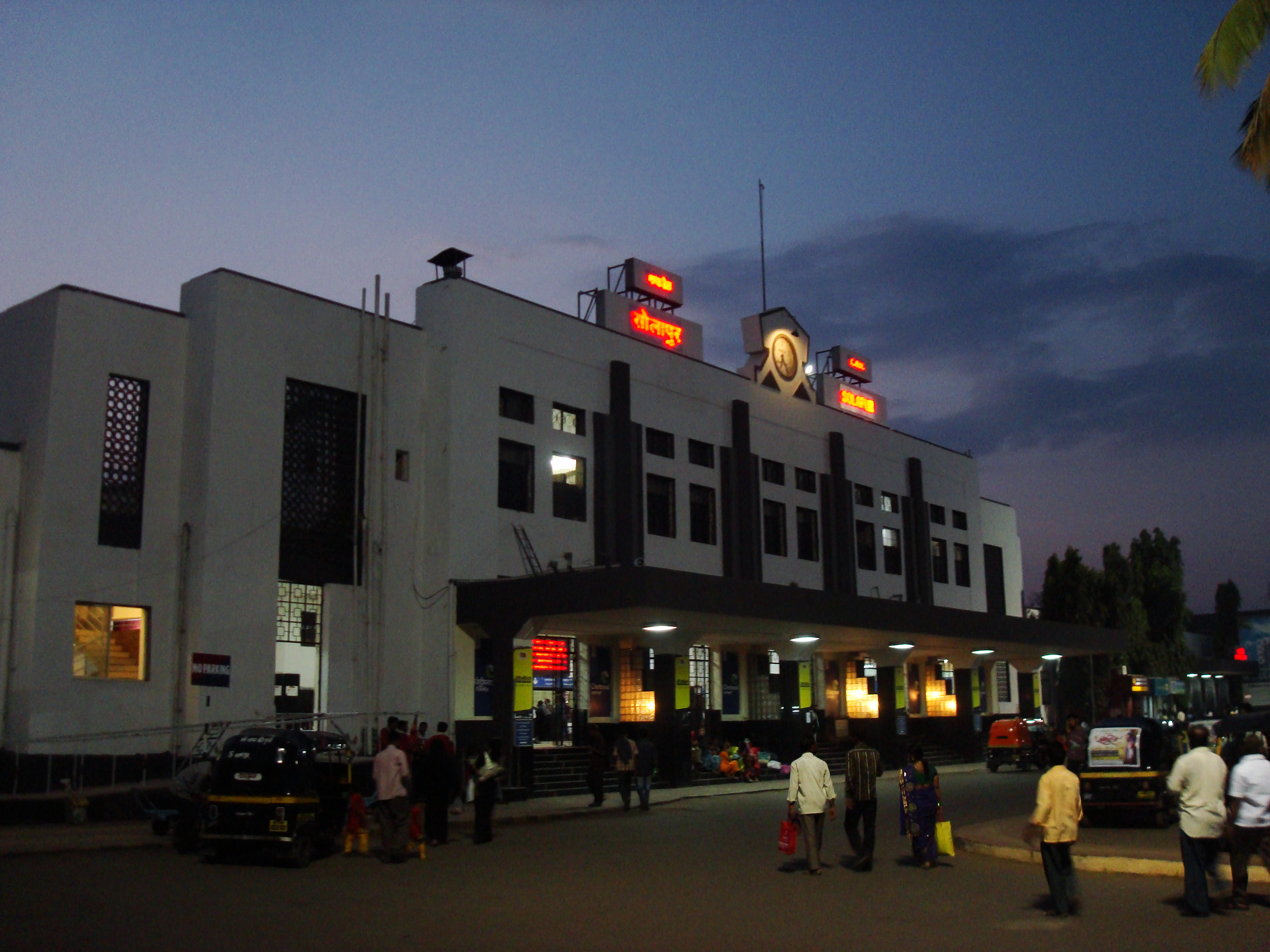 Solapur Railway station in evening.